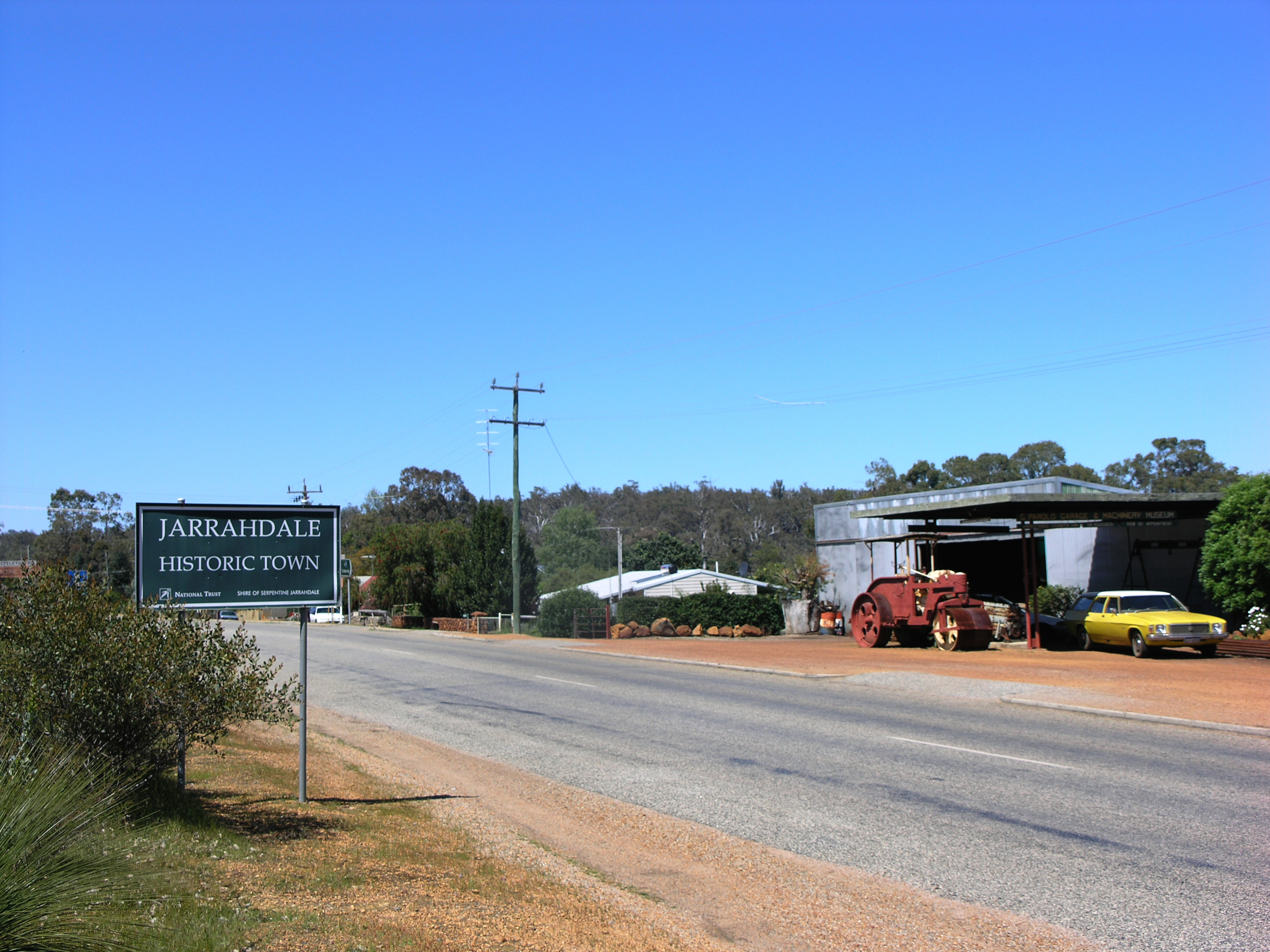 Jarrahdale, Western Australia.